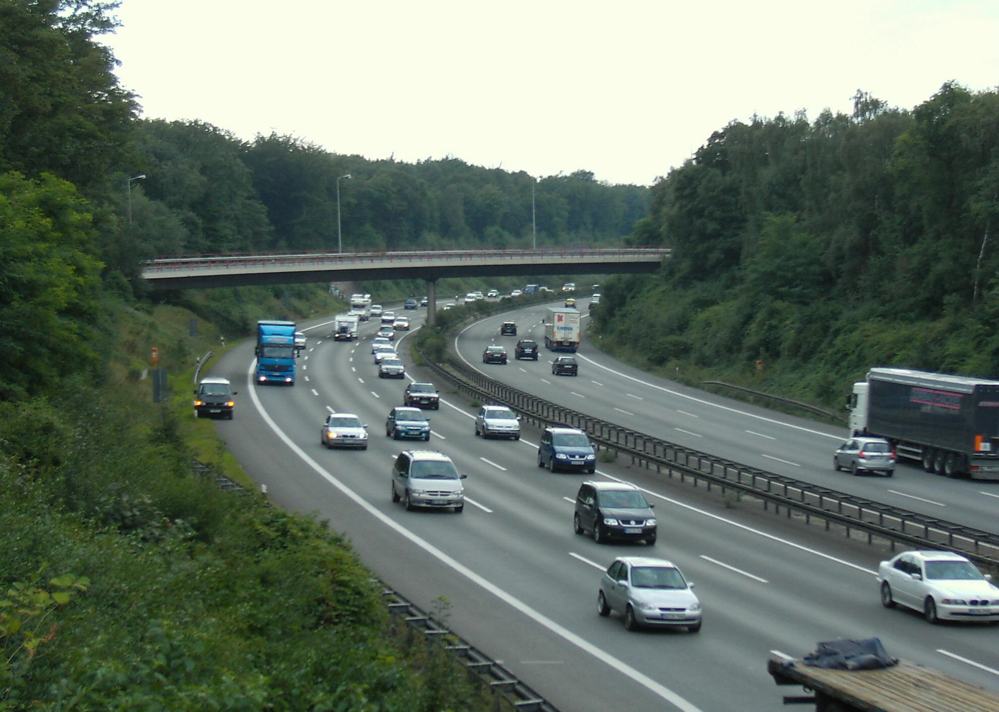 Bundesautobahn 3 in Duisburg, Germany.